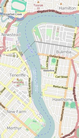 Open Street Map - Bulimba Reach, 2015